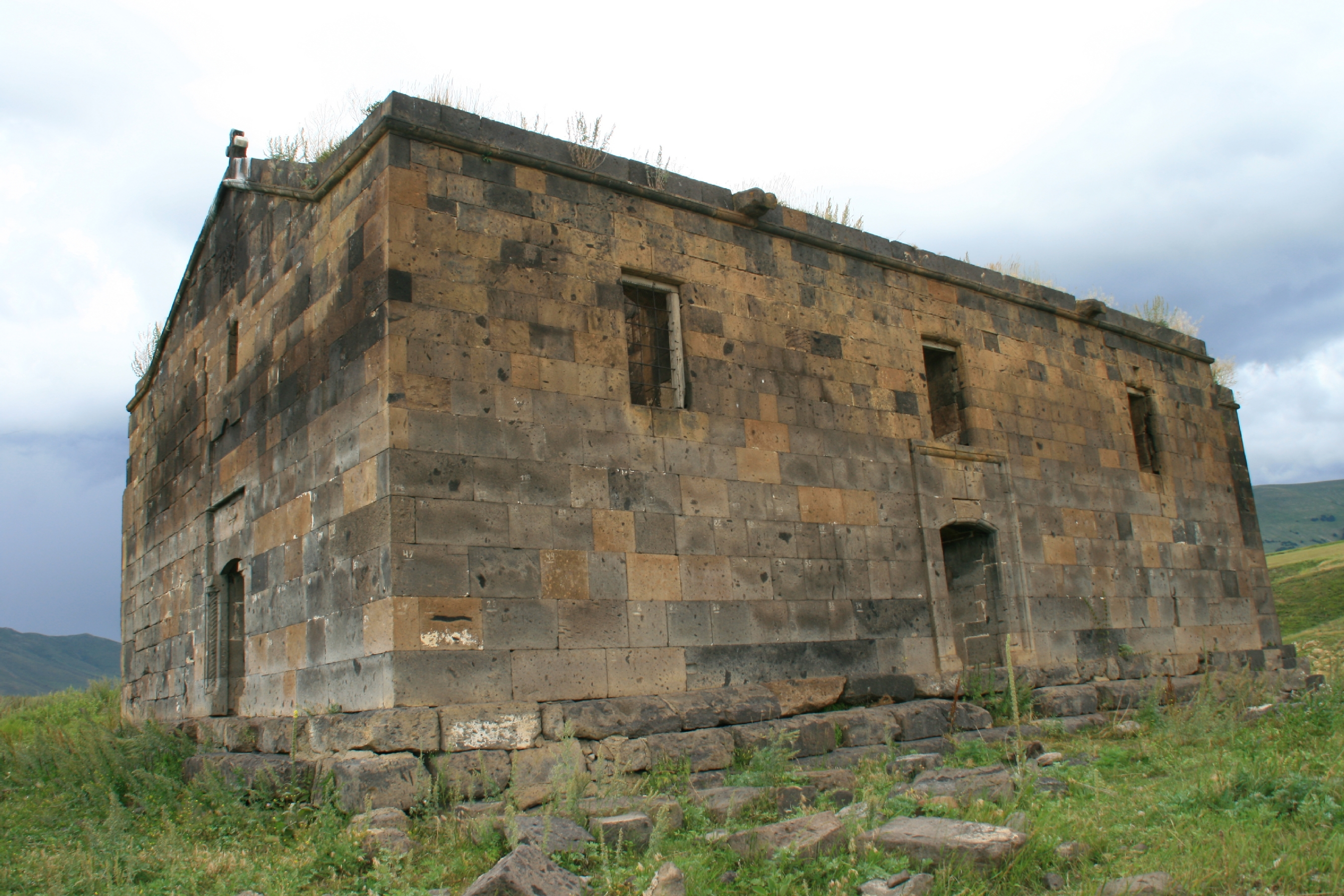 ԳՅՈՒՂԱՏԵՂԻ ԶՈՎՈՒՆԻ 91/2